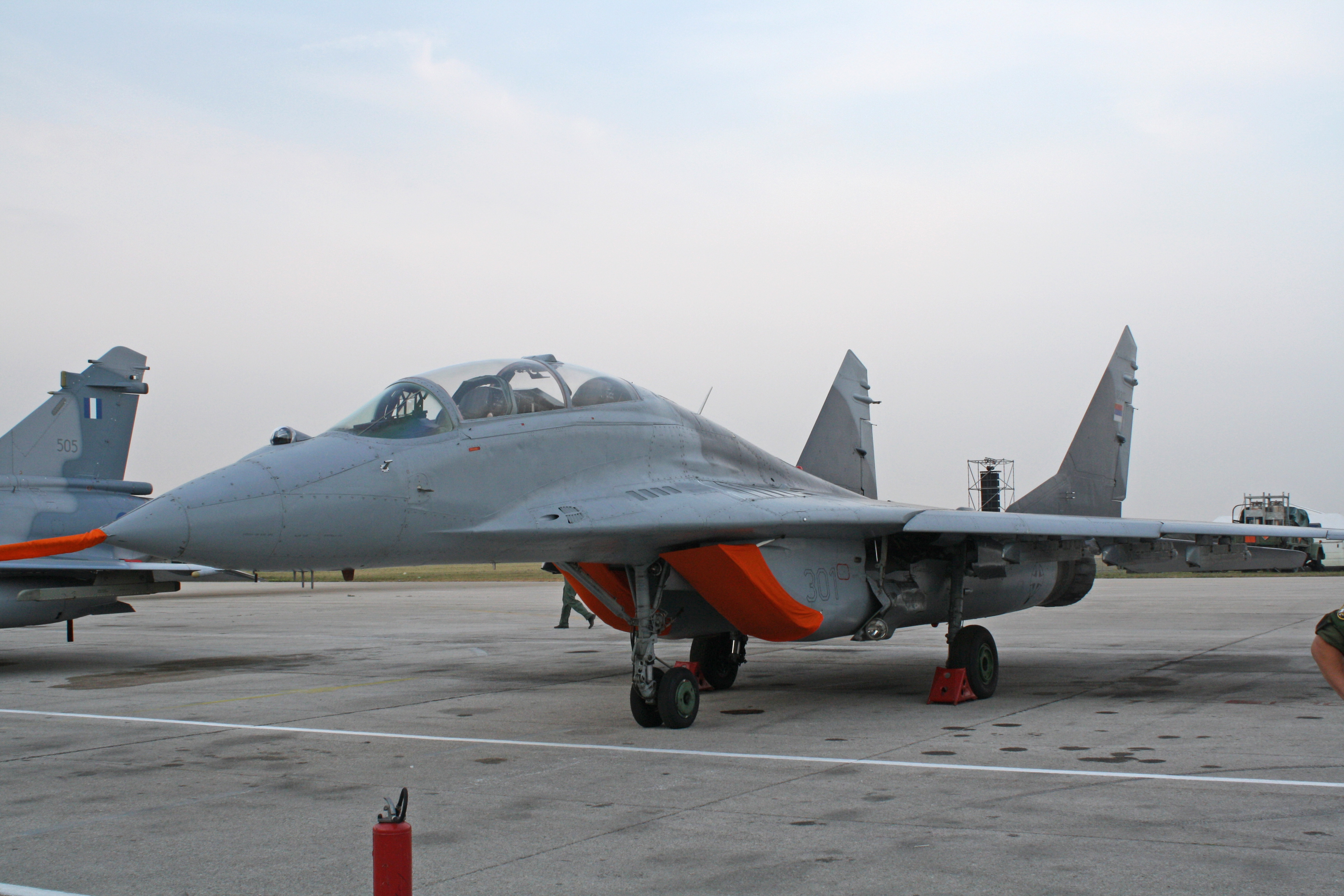 MiG-29UB trainer-fighter aircraft No. 18301 of 101. Fighter-Aviation Squadron, 204th Air Base of Serbian Air Force, on display at Batajnica airbase during the international Batajnica 2009 airshow Наставни ловачки авион МиГ-29УБ број 18301 из састава 101. ловачке авијацијске ескадриле 204. Авио базе Ваздухопловства и ПВО Војске Србије изложен на Батајничком аеродрому за време међународног аеромитинга Батајница 2009.